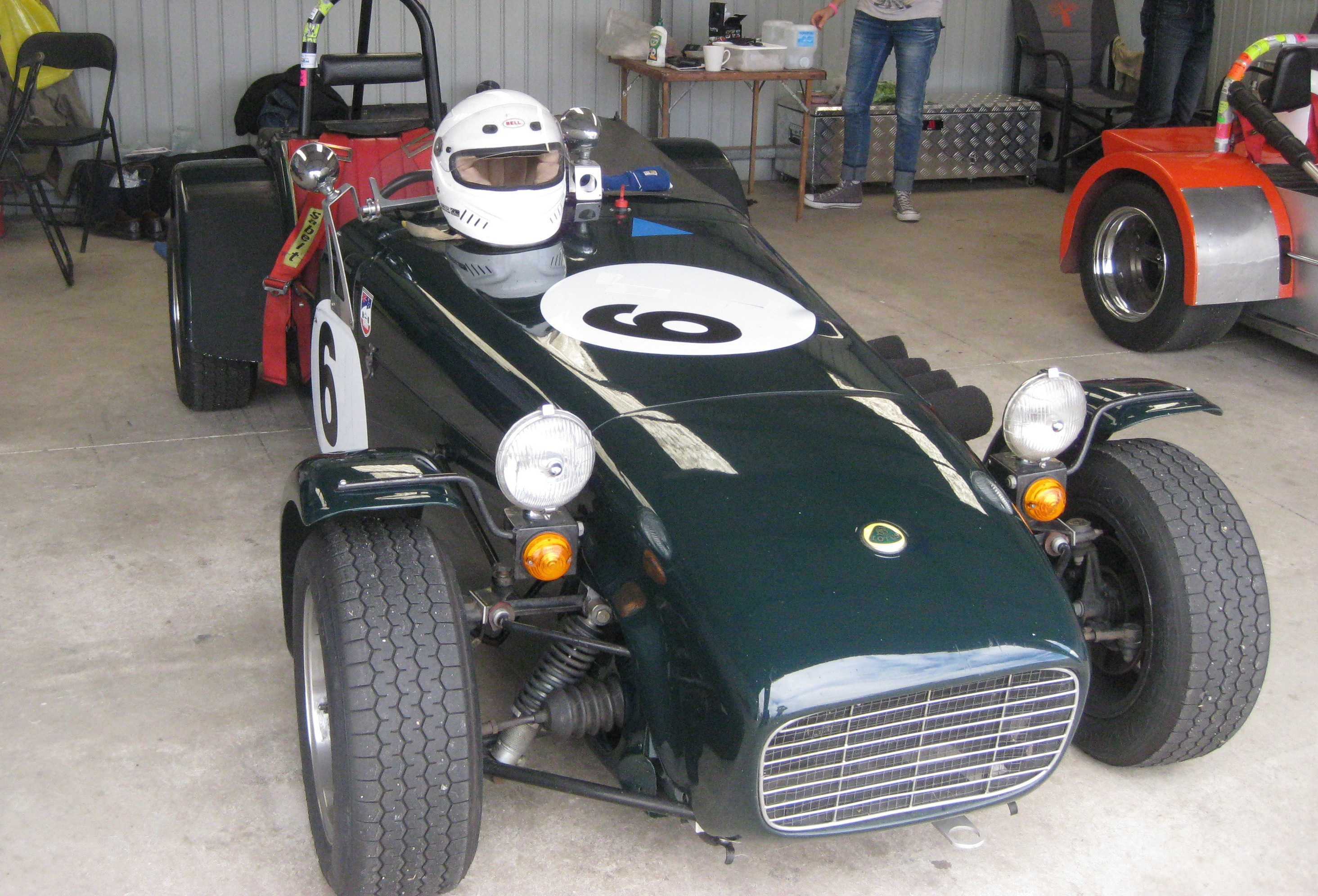 1962 Lotus Super Seven S2 of John Evans at Mallala Motor Sport Park in 2012. The car placed 9th place in the 1962 Australian Grand Prix and was the outright winner of the 1963 Six Hour Le Mans race. Jeff Dunkerton was the owner/driver in both events.